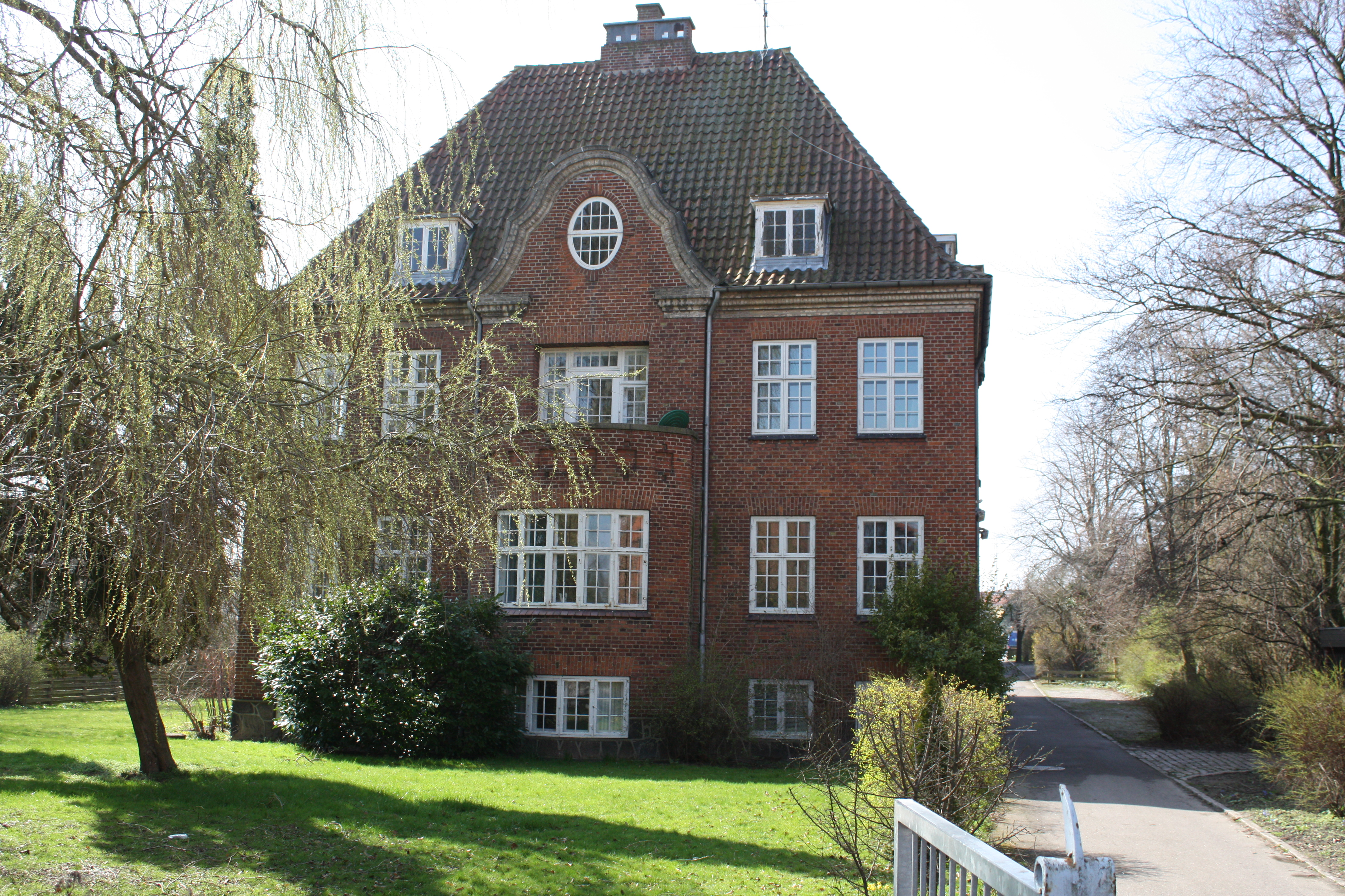 A house in Nykøbing Falster, DenmarkDansk: Hus på Engboulevarden 30 i Nykøbing Falster, Danmark.